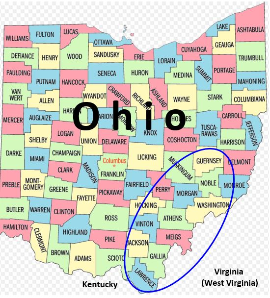 This is a county map of the USA state of Ohio. The counties along the border with Virginia (West Virginia beginning mid-1863) contained the home towns of most of the members of the 2nd West Virginia Cavalry regiment, which was originally called the 2nd Regiment of Loyal Virginia Volunteer Cavalry This regiment fought in the American Civil War from 1861 to 1865.